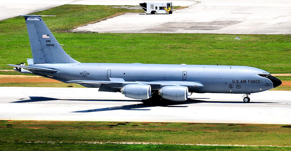 133d Air Refueling Squadron - Boeing KC-135R-BN Stratotanker 62-3506